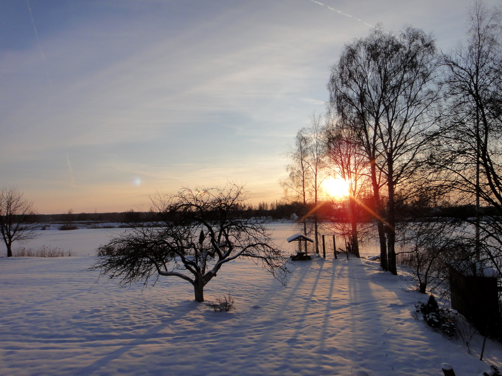 The first winter week 2012